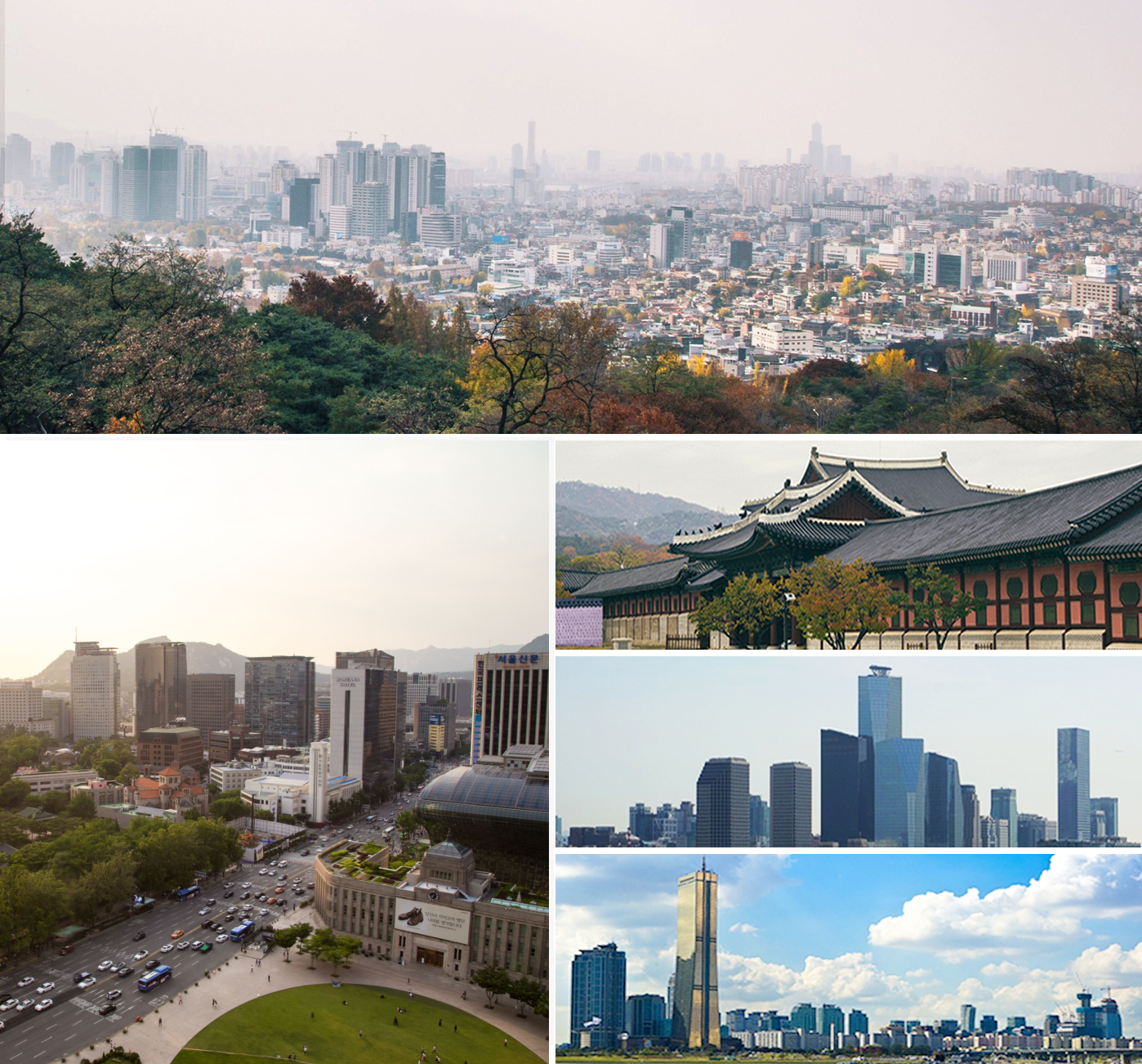 Photo Montage of Seoul City.